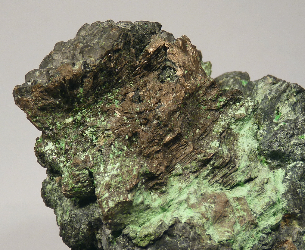 Nickeline, Annabergite Locality: Schwarzenberg, Erzgebirgskreis, Saxony, Germany Field of view 6 cm